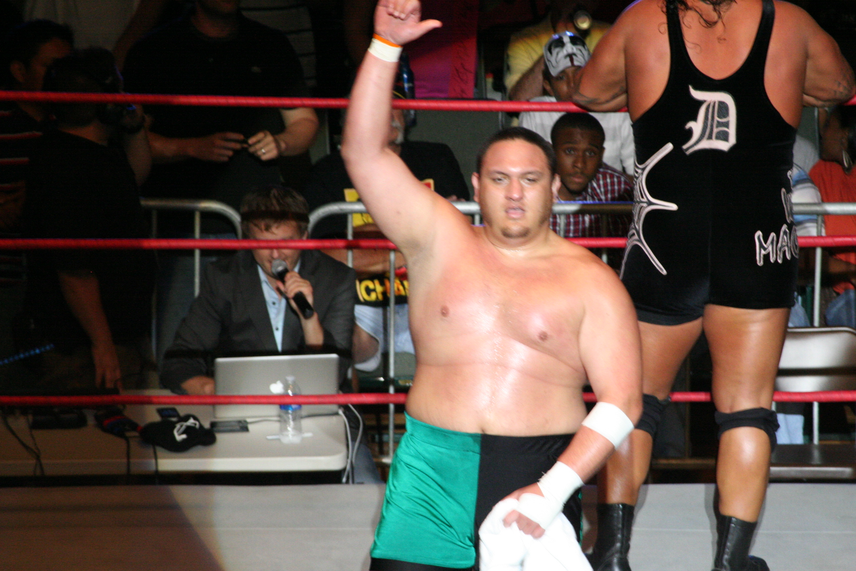 Professional wrestler Samoa Joe at a TNA live event